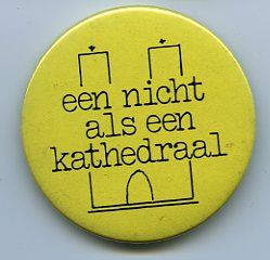 Button used for coming out as being gay